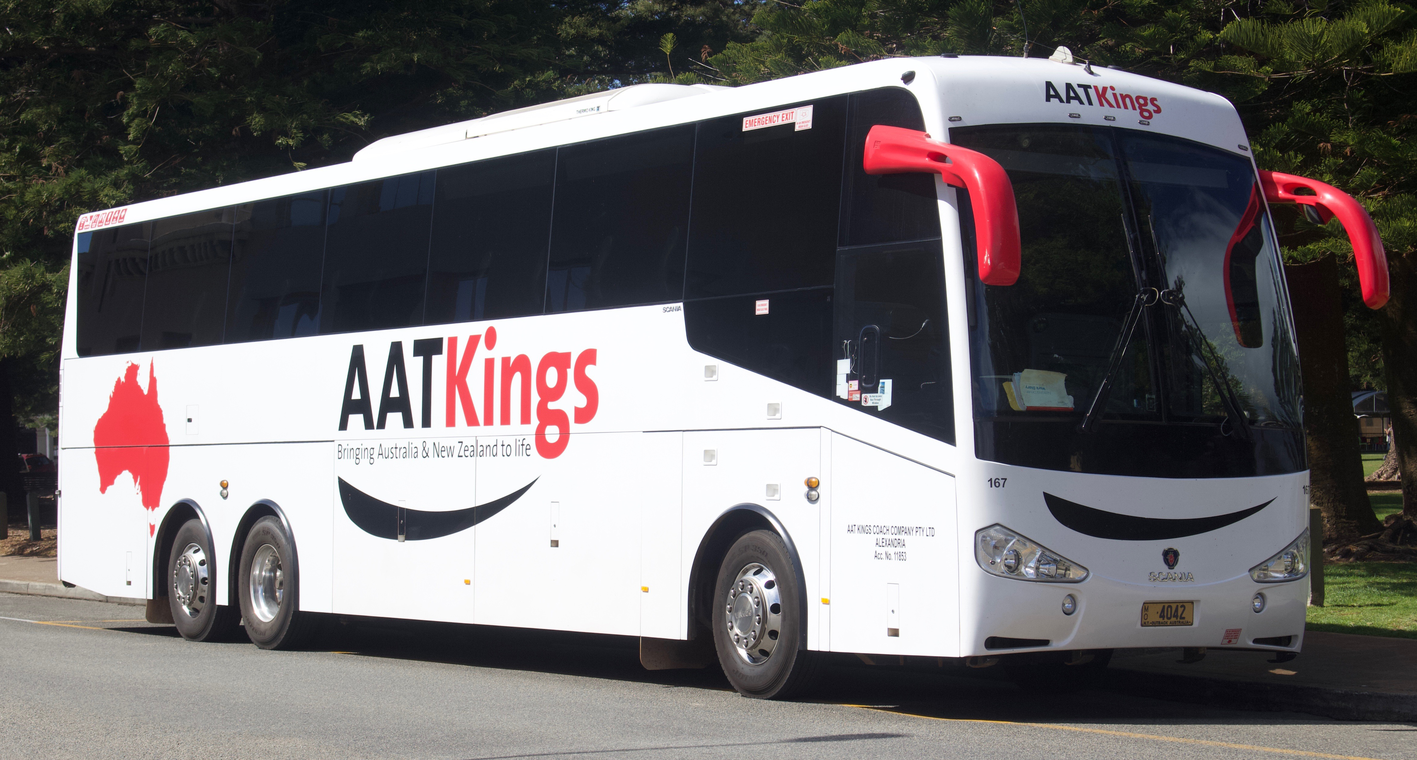 2015 Coach Concepts bodied Scania K440EB operating under AAT Kings under Northern Territory plates